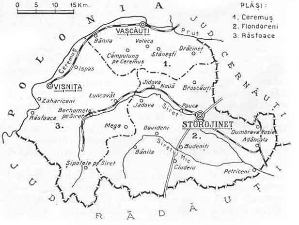 Map of Storojineț interwar county, Kingdom of Romania (1938).